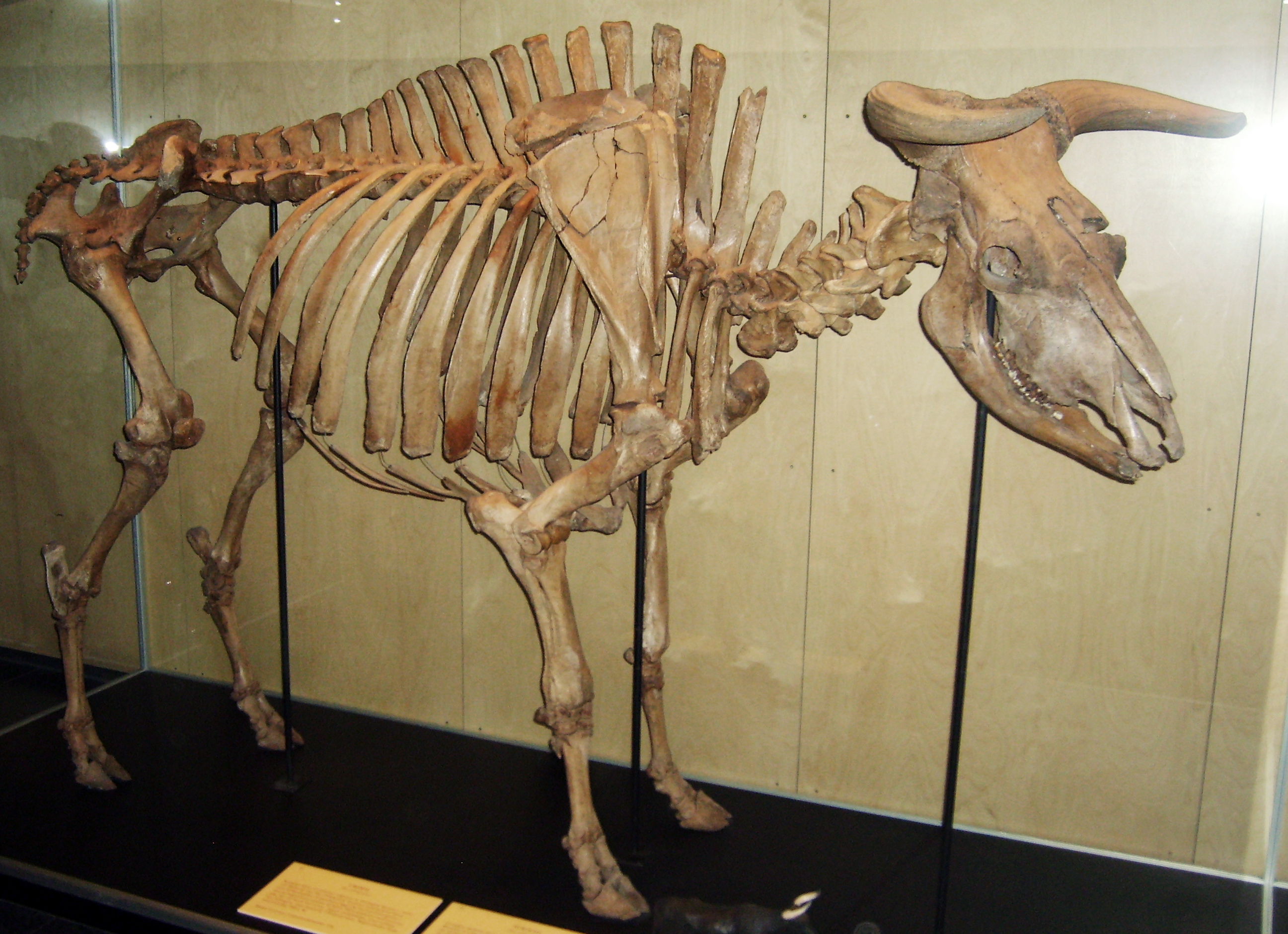 Aurochs bull at the Zoological Museum in Copenhagen. 7400 BC, found on Prejlerup.